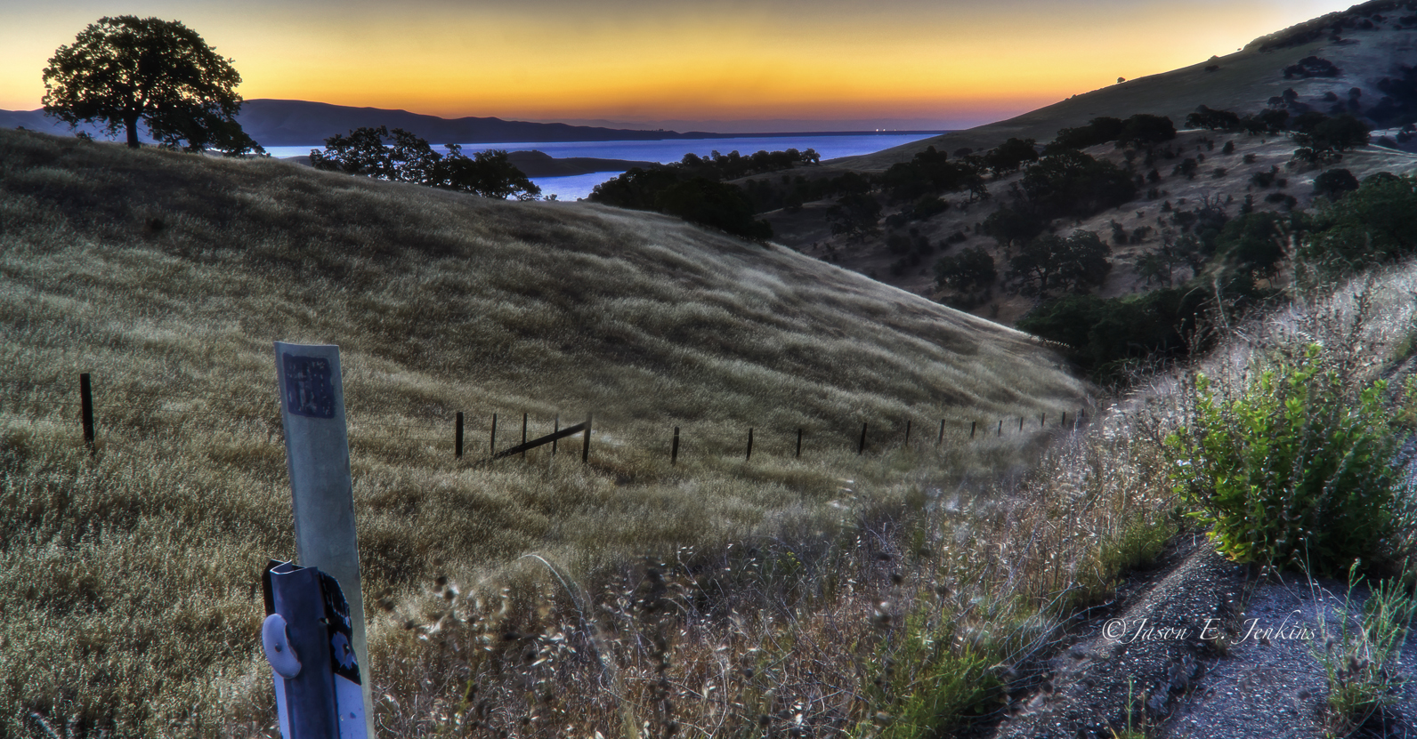 Dinosaur Point in Pacheco State Park at San Luis Reservoir, California, USA